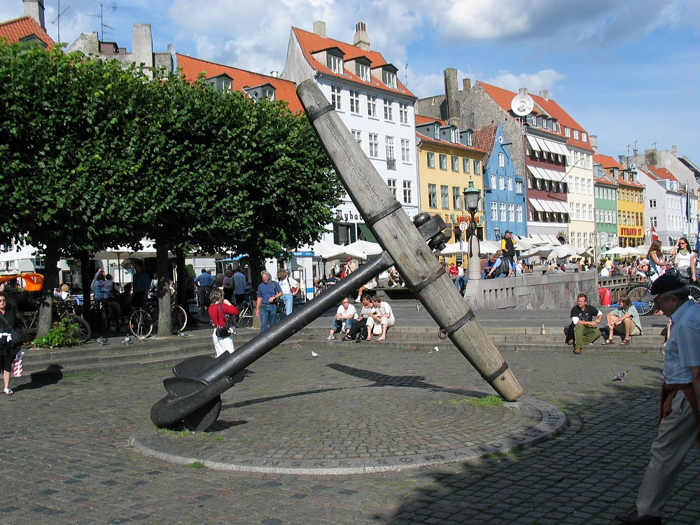 Anchor placed in Nyhavn, Copenhagen, commemorating the danish sailors who died during World War II.